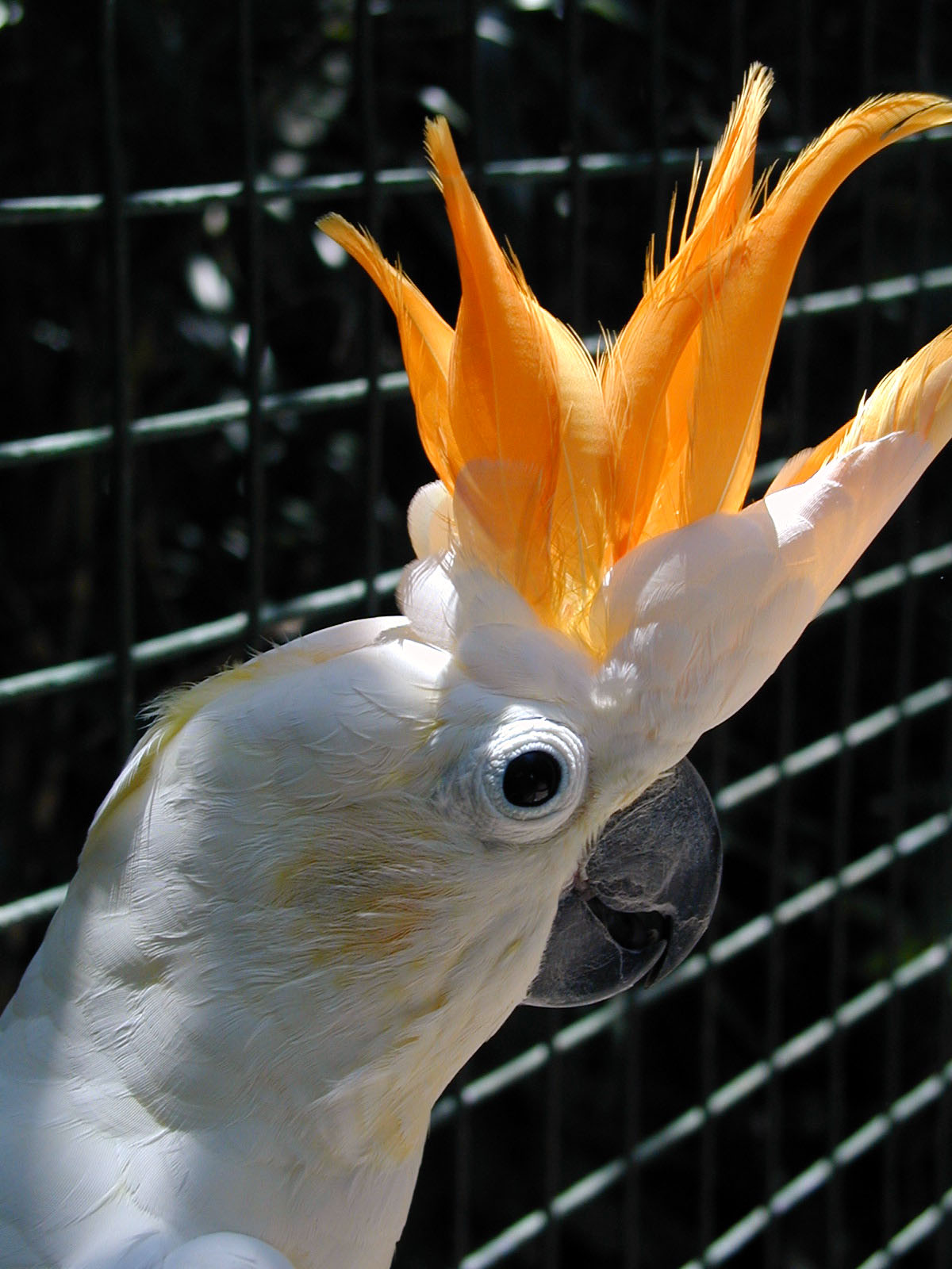 Citron-crested Cockatoo. Photograph of upper body and crest.